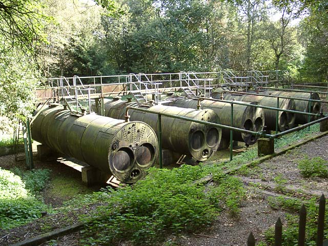 Bulkeley boilers: Old Lancashire boilers in use as storage tanks at the Bulkeley waterworks.